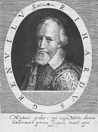 Portrait of Richard Grenville from Henry Holland's Heroologia Anglica (1620).